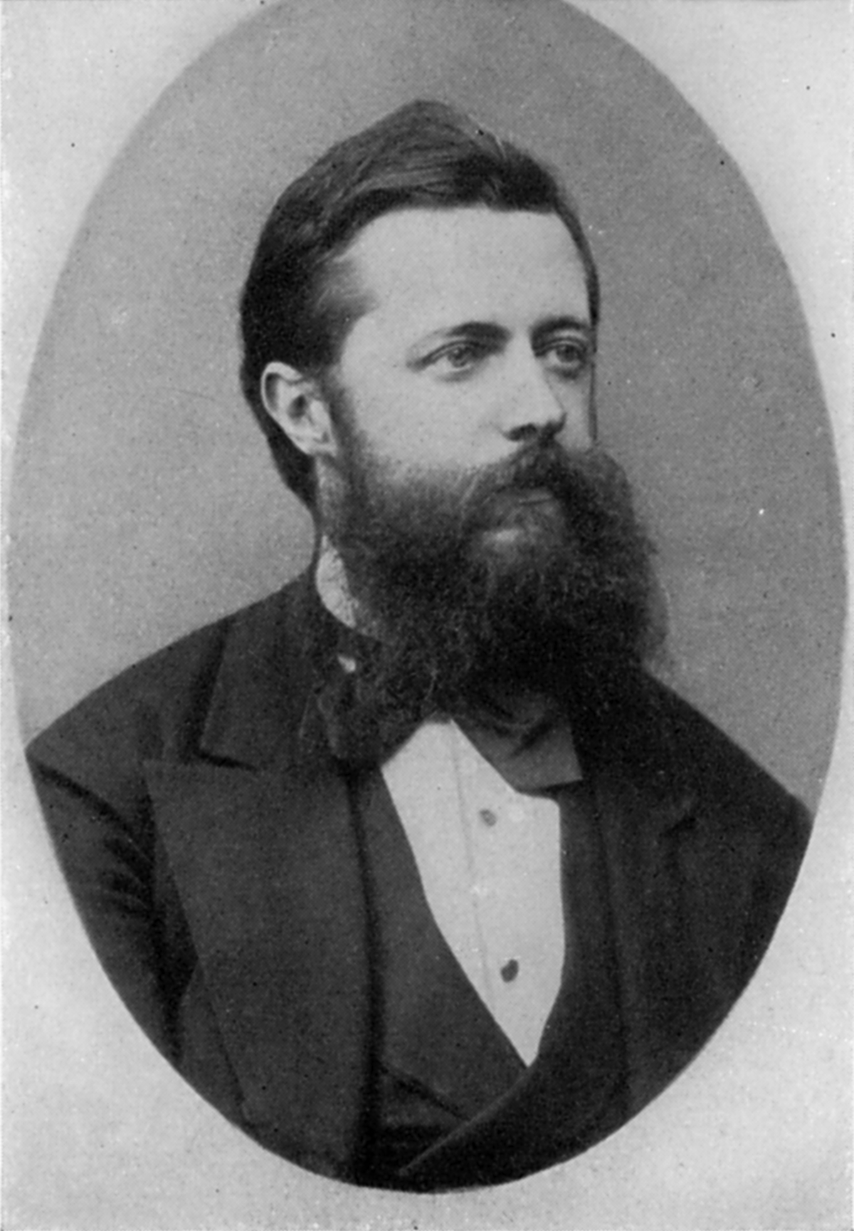 Theodor Otto Helm, Austrian Music Critic, circa 1885